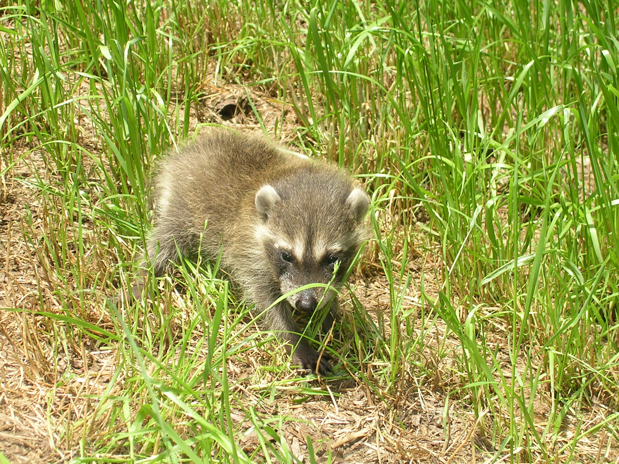 A rescued raccoon that I'm going to raise until it gets older to fend for it's self